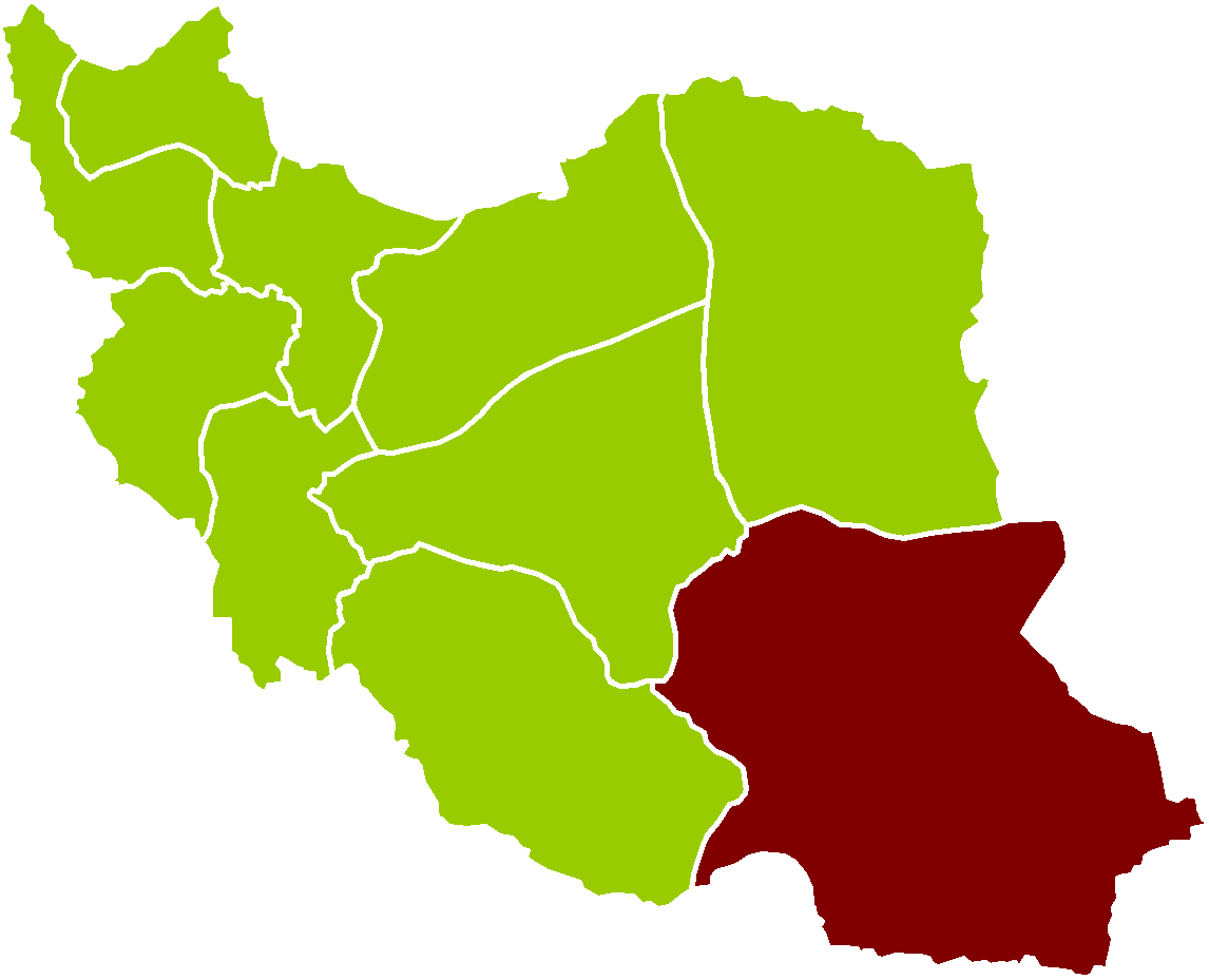 Eight province of Iran